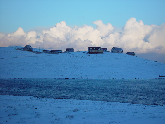 Huxter, Whalsay, Shetland. House at the crofting community of Huxter, with Loch of Huxter in foreground.